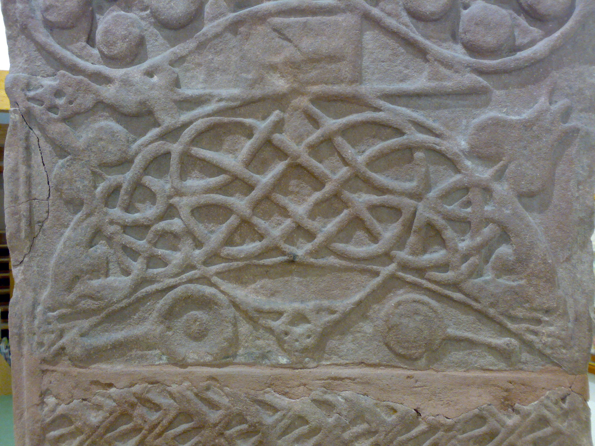 The Rosemarkie Stone is a Sculpted Cross Slab Class II. Dressed and carved pink sandstone - 4 sides sculpted in relief; unusual in that it bears 2 carved crosses, 3 Pictish crescents and the narrow sides are decorated with great variety and complexity. Top missing. Found in 1819 Rosemarkie Church. This file was uploaded as part of a GLAMWiki partnership with Groam House Museum. You can find out more on the Museums Galleries Scotland project page. This tag does not indicate the copyright status of the attached work. A normal copyright tag is still required. See Commons:Licensing.